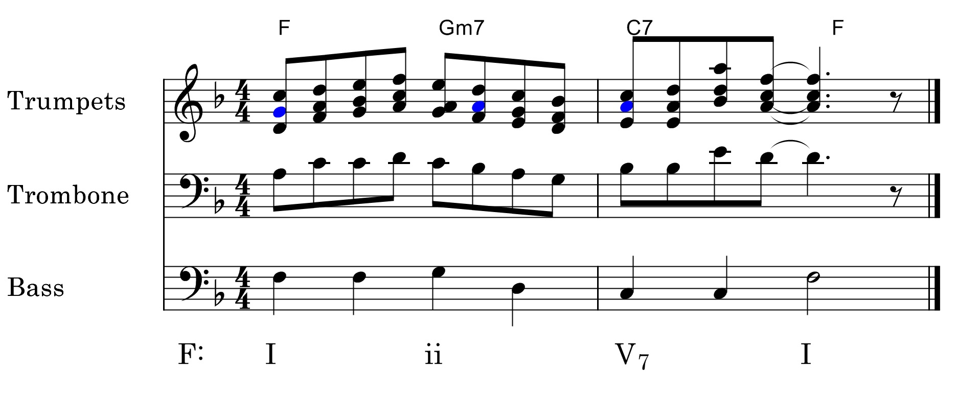 4 voice sectional harmony in drop 2.